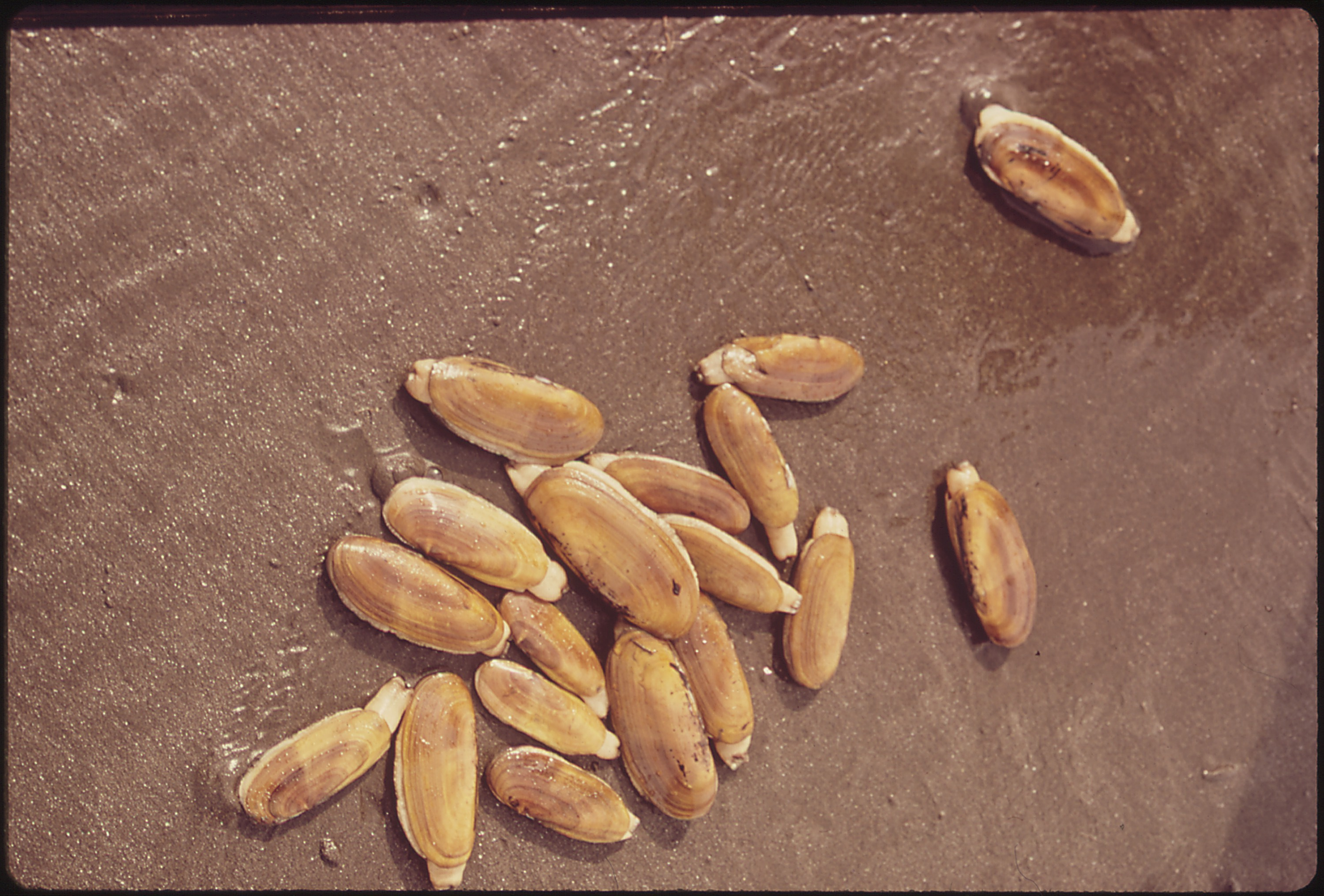 General notes: A group of individuals of the edible Pacific razor clam, Siliqua patula, which have been dug up to be harvested as food, photographed in Quinault Beach, Washington State, USA